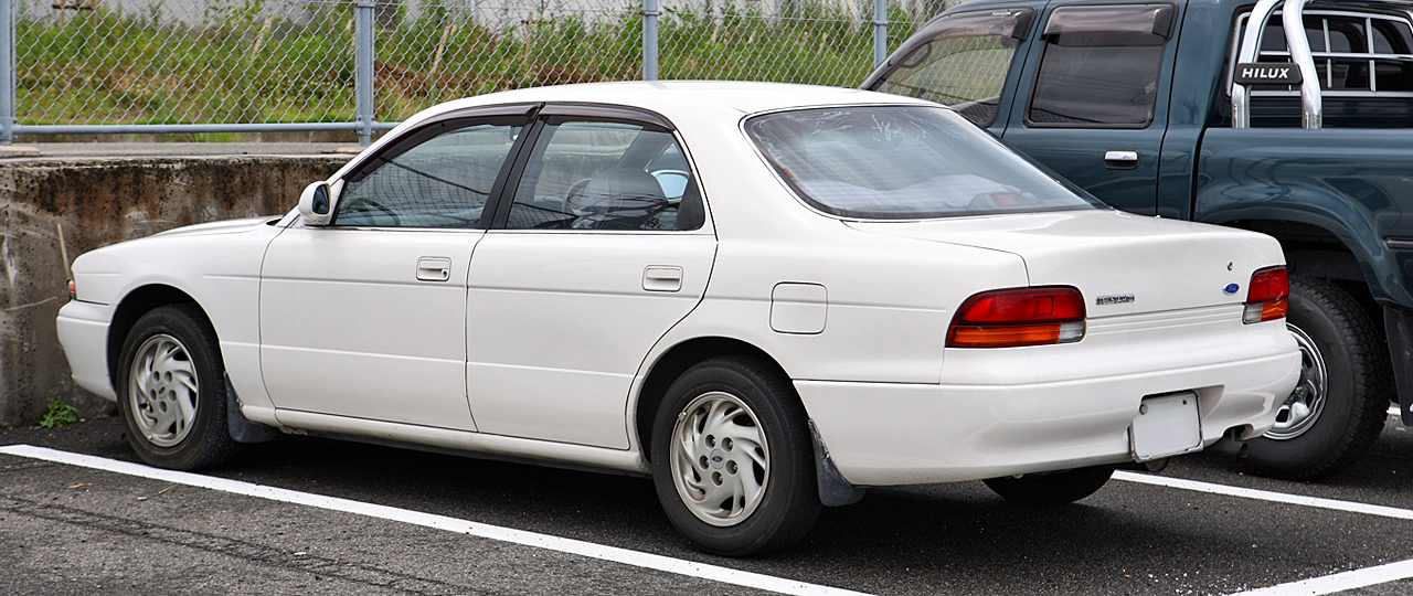 4th generation Ford Telstar II ( 1994 - 1997 )